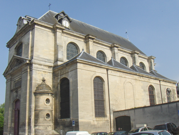 Chantilly parish church